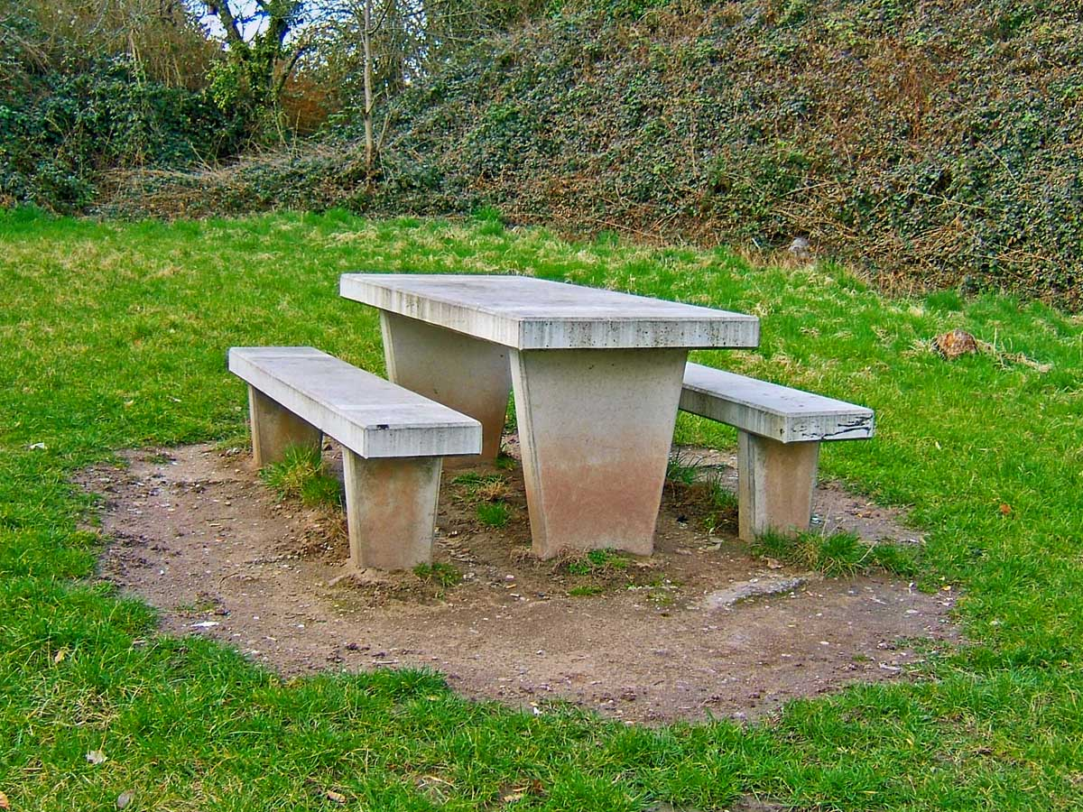 Picnic table in Remshalden, Germany